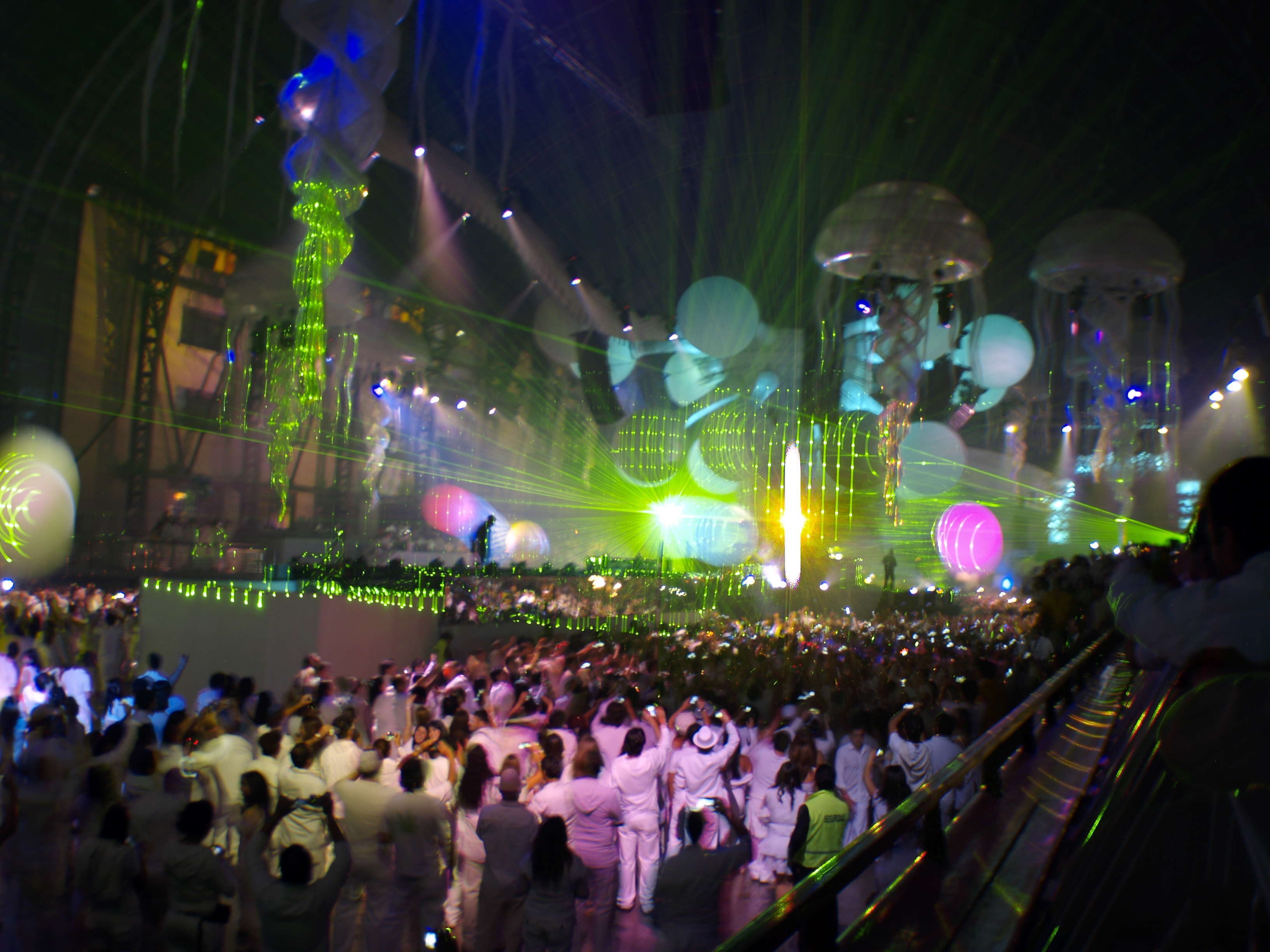 Sensation White Chile 2010 30-04-2010 Estacion Mapocho